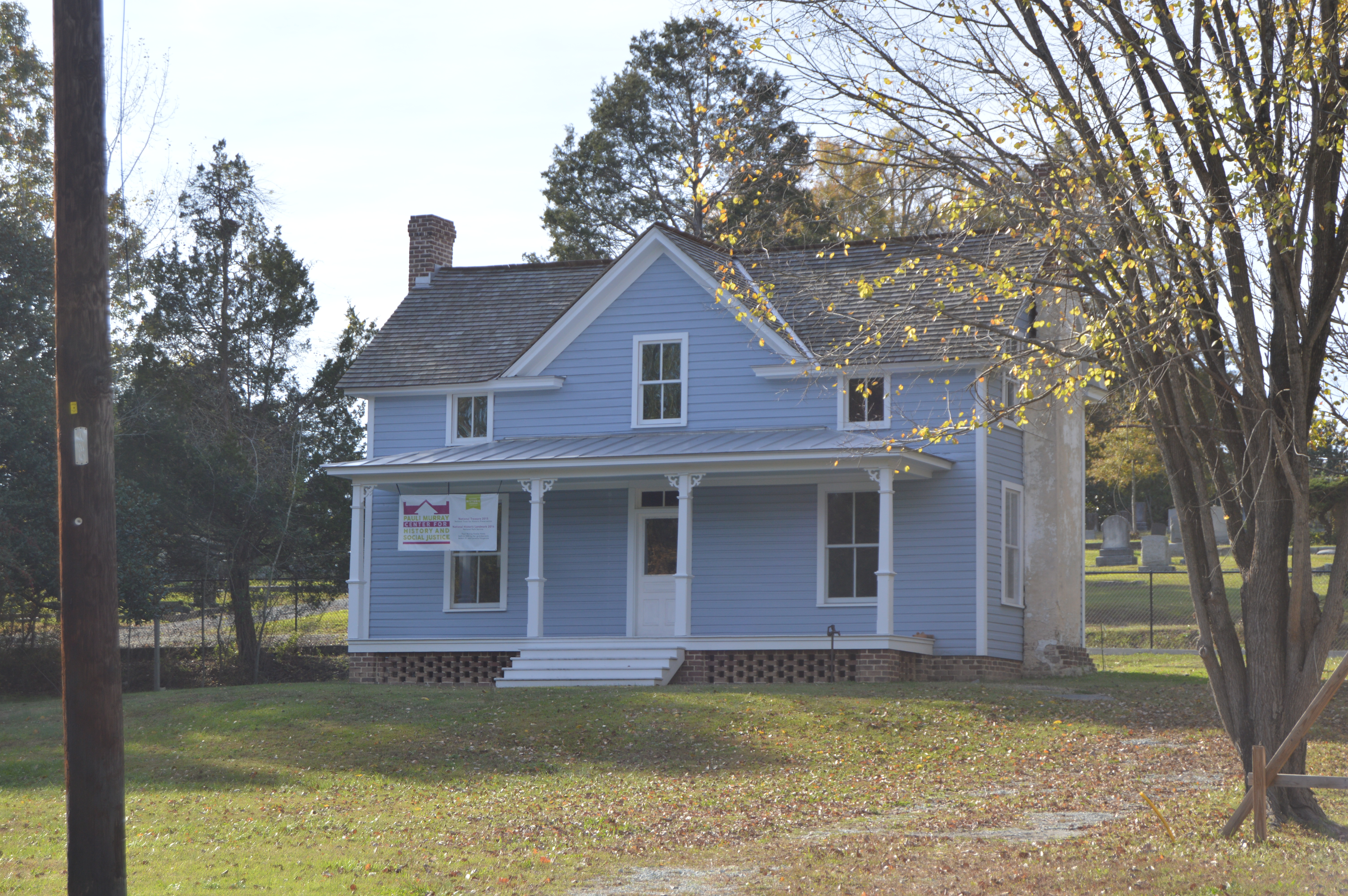 Front of the Pauli Murray Family Home, located at 906 Carroll Street in Durham, North Carolina, United States. Built in 1898, it has been designated a National Historic Landmark.